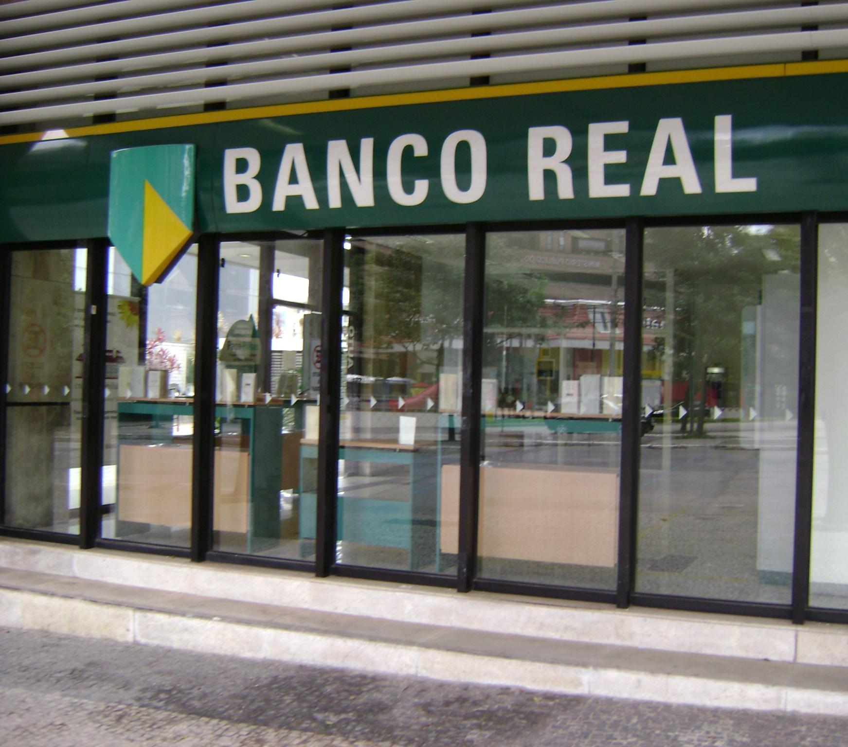 Agência do Banco Real na Avenida Álvares Cabral, em Belo Horizonte.